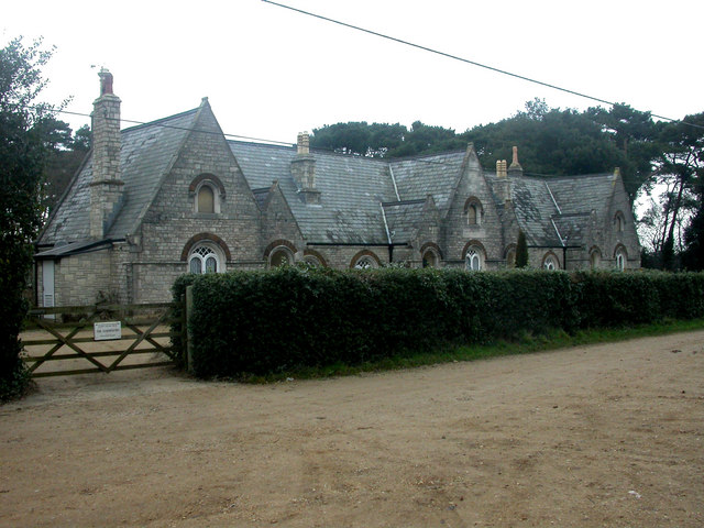 Talbot Village, almshouses. English Heritage-listed almshouses built by Georgina Talbot in 1862 as part of her model village 1109271. Could accommodate 14 people in 7 units; each had a pig sty & poultry run. Coal, doctor's fees, an allowance, building upkeep and burial expenses were paid for. At my visit, I couldn't detect pigs or poultry!